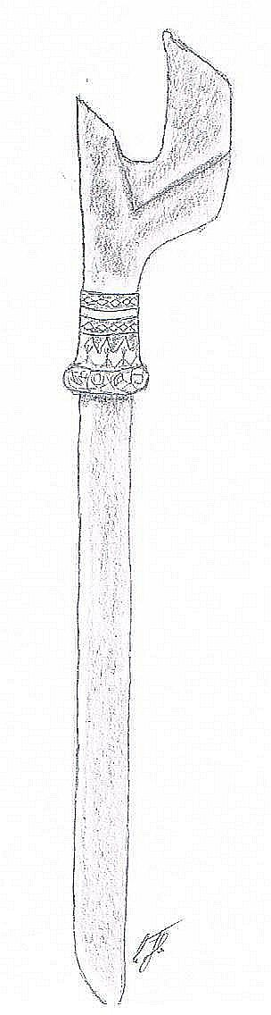 Alamang Sword